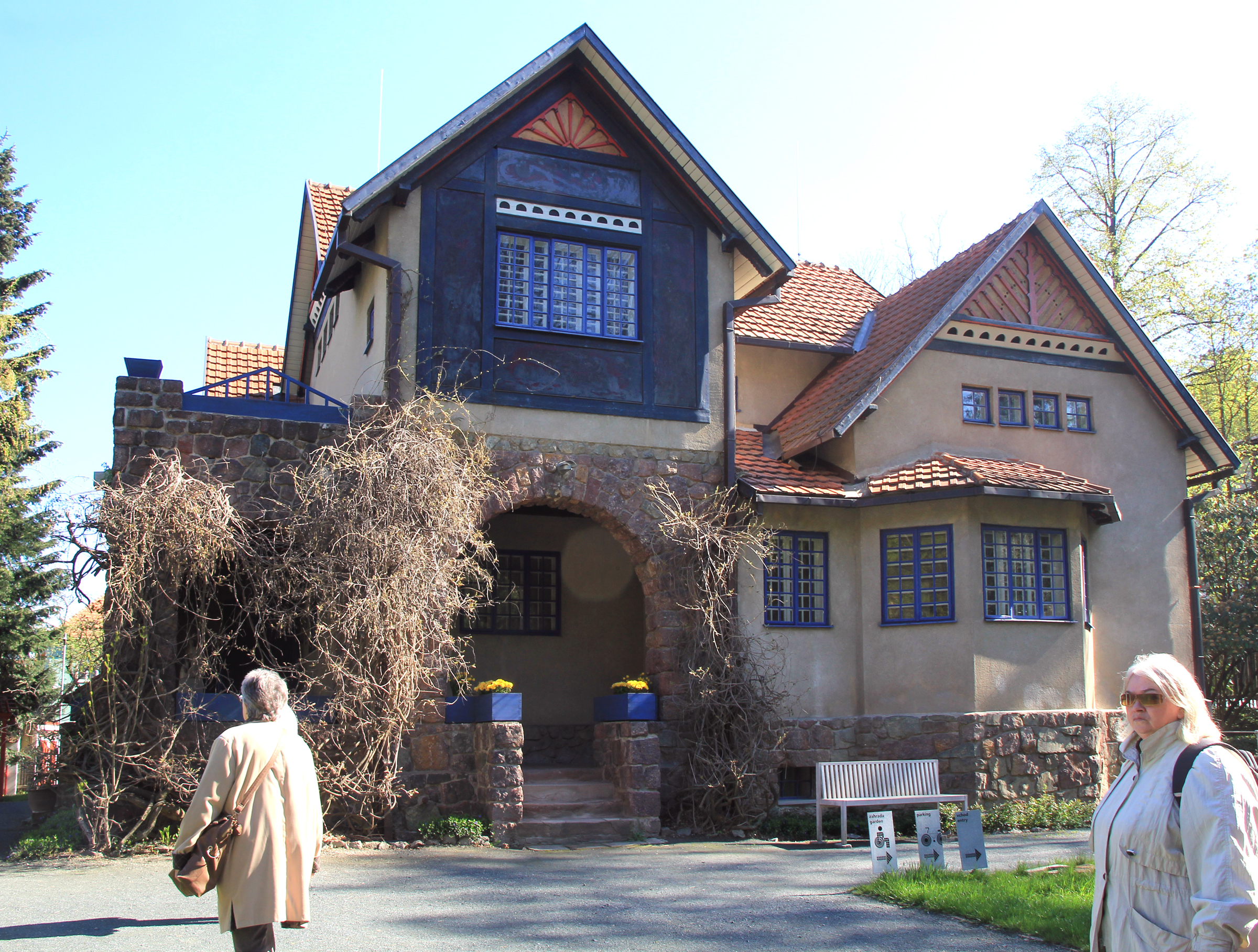 Villa of Dušan Jurkovič in town Brno, Czech Republic